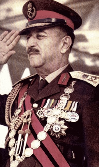 President of Iraq Ahmed Hassan al-Bakr.